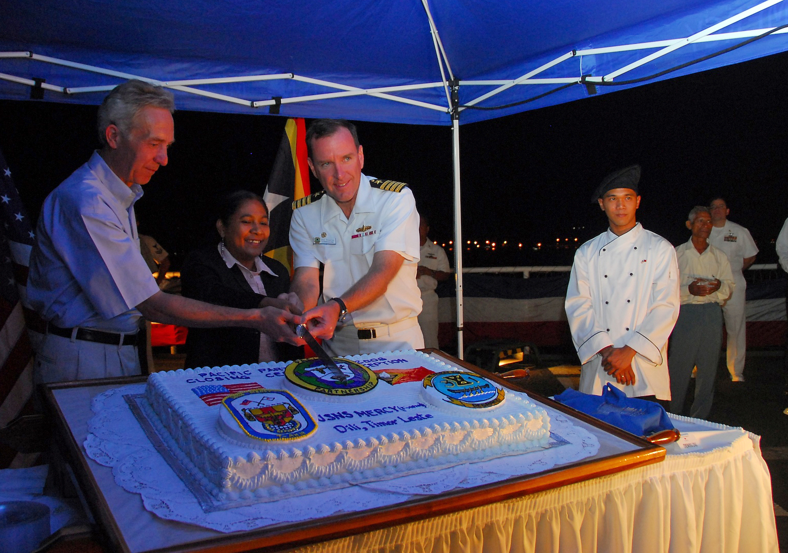 DILI, East Timor (July 24, 2008) The Honorable Hans G. Klemm, U.S. Ambassador to East Timor, left, Maria da Paixão, vice president of the National Parliament, and Capt. William A. Kearns III, commander, Pacific Partnership mission, cut a cake during a farewell reception on the flight deck of the Military Sealift Command hospital ship USNS Mercy (T-AH 19). Mercy is participating in Pacific Partnership, a four-month humanitarian mission to Southeast Asia intended to build collaborative relationships by providing engineering, civic, medical and dental assistance to the region. (U.S. Navy photo by Mass Communication Specialist 3rd Class Joshua Valcarcel/Released)